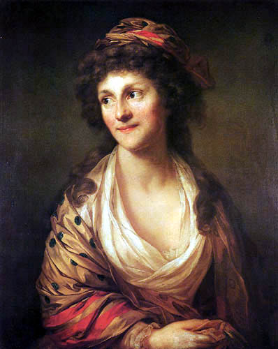 Anna Marie Jacobine Körner, gen. "Minna", geb. Stock. Ehefrau von Christian Gottfried Körner